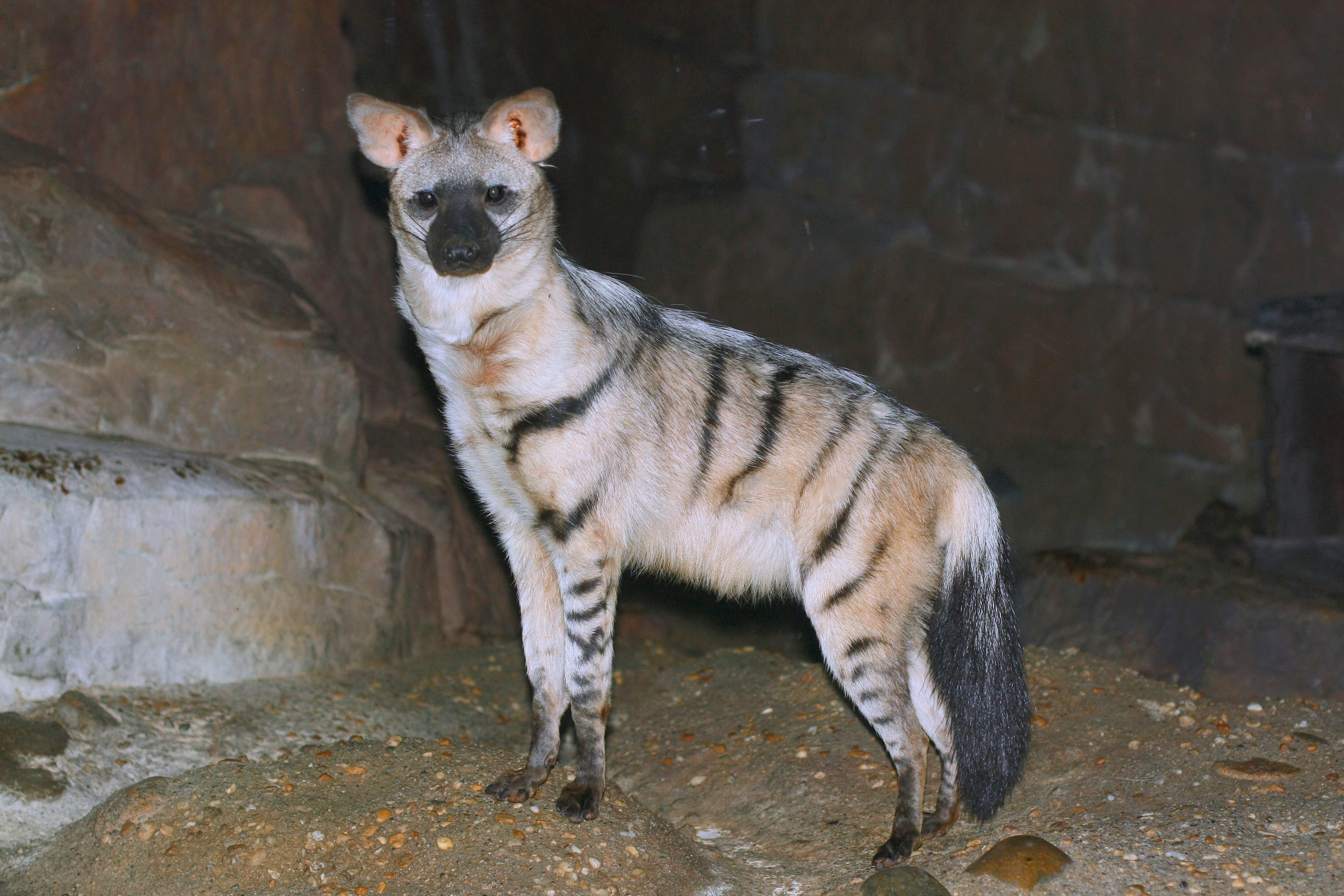 Aardwolf taken at the Cincinnati Zoo and Botanical Garden.